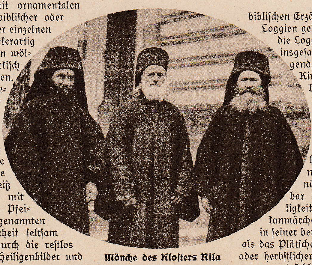 From the Catholic magazine StadtGottes 1927